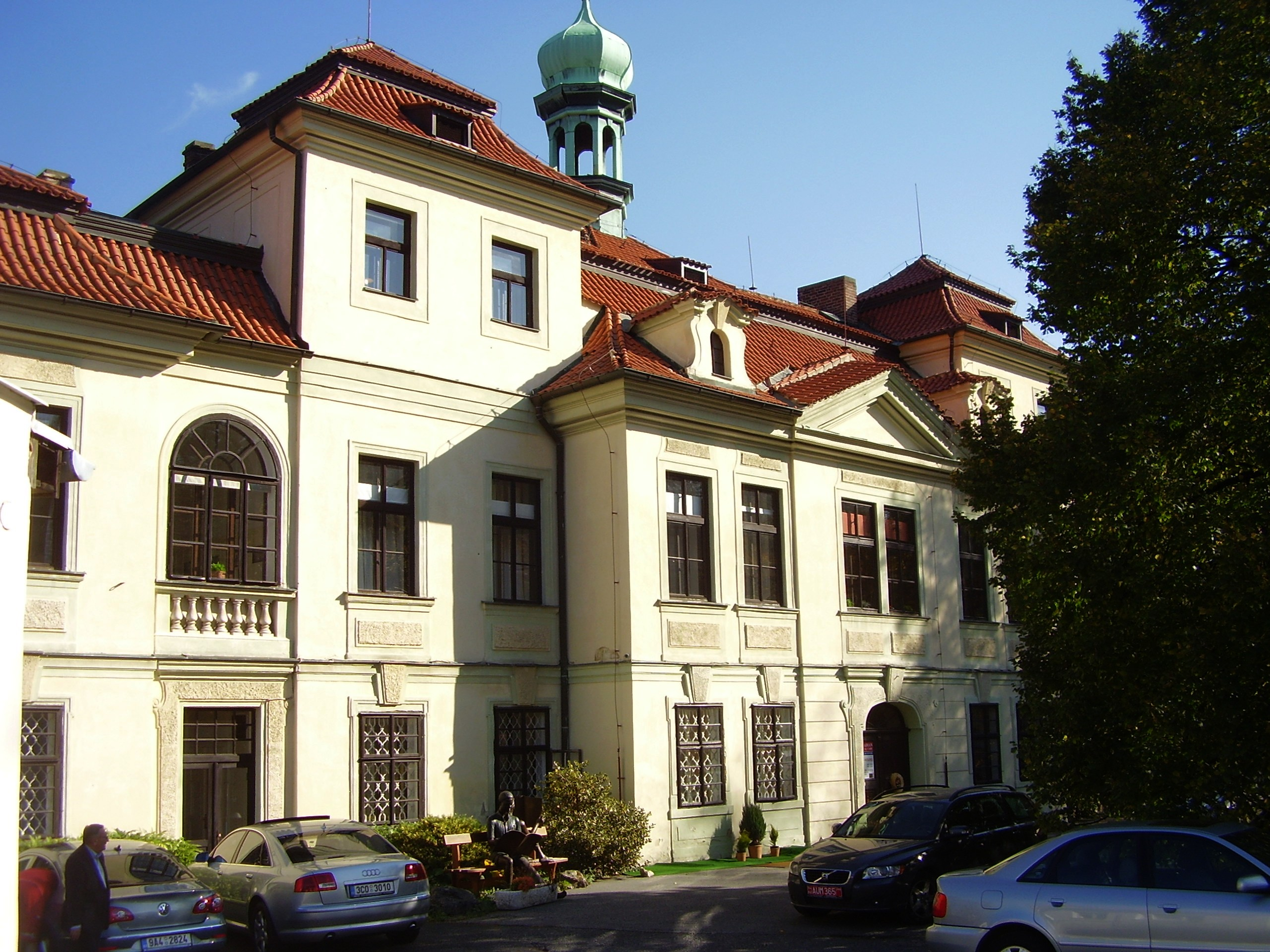 Veleslavín castel, Veleslavín, Prague 6